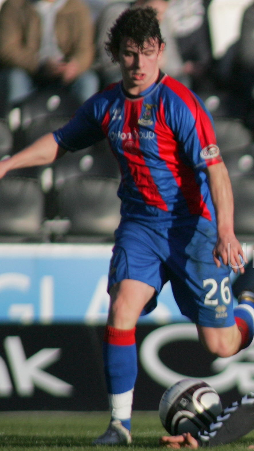 Aaron Doran from SCOTTISH PREMIER LEAGUE - St Mirren vs Inverness Caley Thistle. St Mirren's Craig Dargo hits the turf to win the Paisley side a Penalty from the challenge of Chris Hogg during an eventful first half at St Mirren Park, Paisley. Picture : Alasdair Middleton/Universal News & Sport (Scotland) Saturday 12th February 2011 Universal News and Sport (Europe) All pictures must be credited to (0ffice) 0844 884 51 22